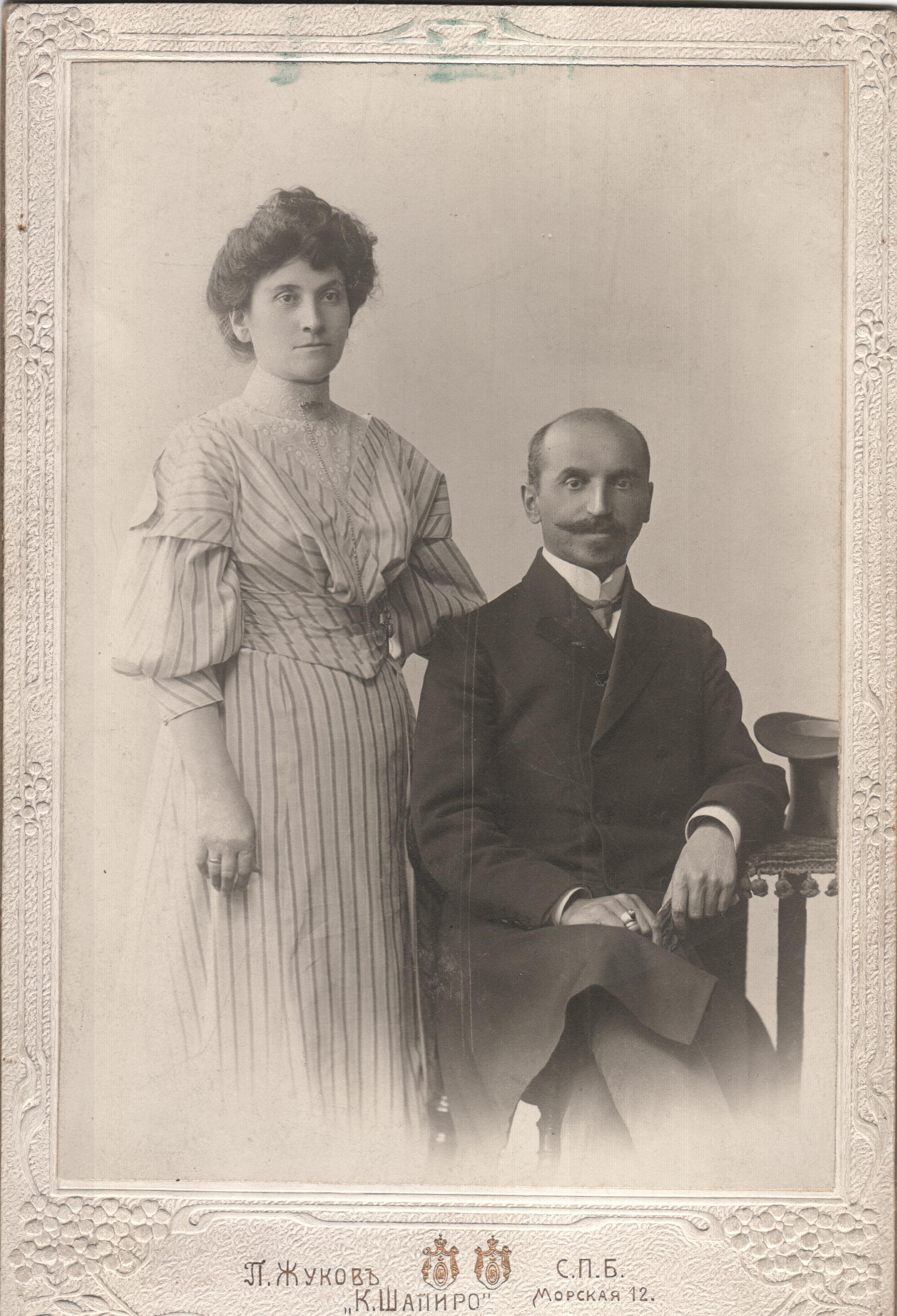 Georgi Kapchev Bulgarian publicist with his wife Elena Angelova in Moscow